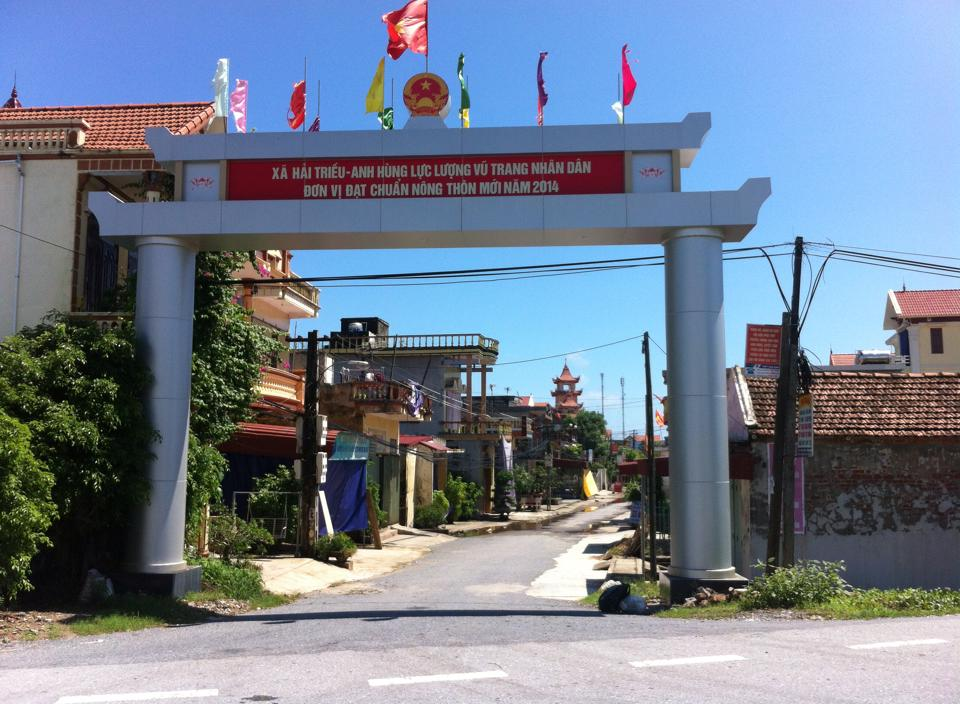 Hai Trieu Hai Hau Nam Dinh